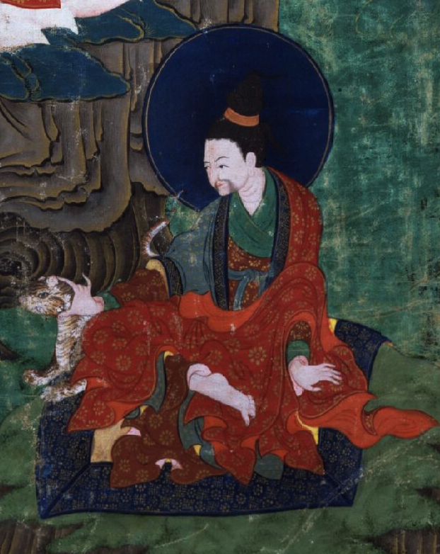 Sokpo Lhapel, 8th century Tibetan buddhist monk